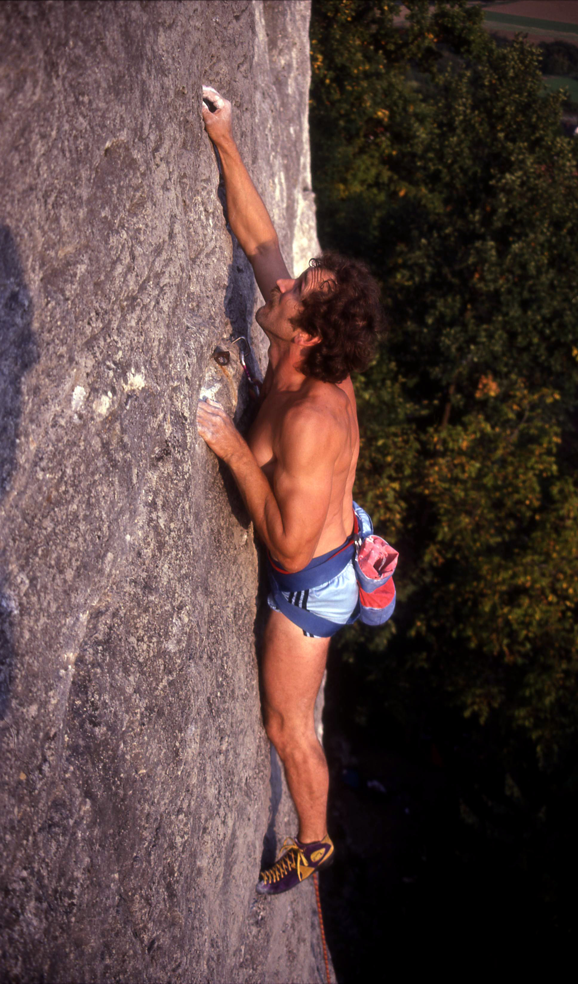 Kurt Albert, Frankenjura. Climbing at the rock "Streitberger Schild" near Streitberg.